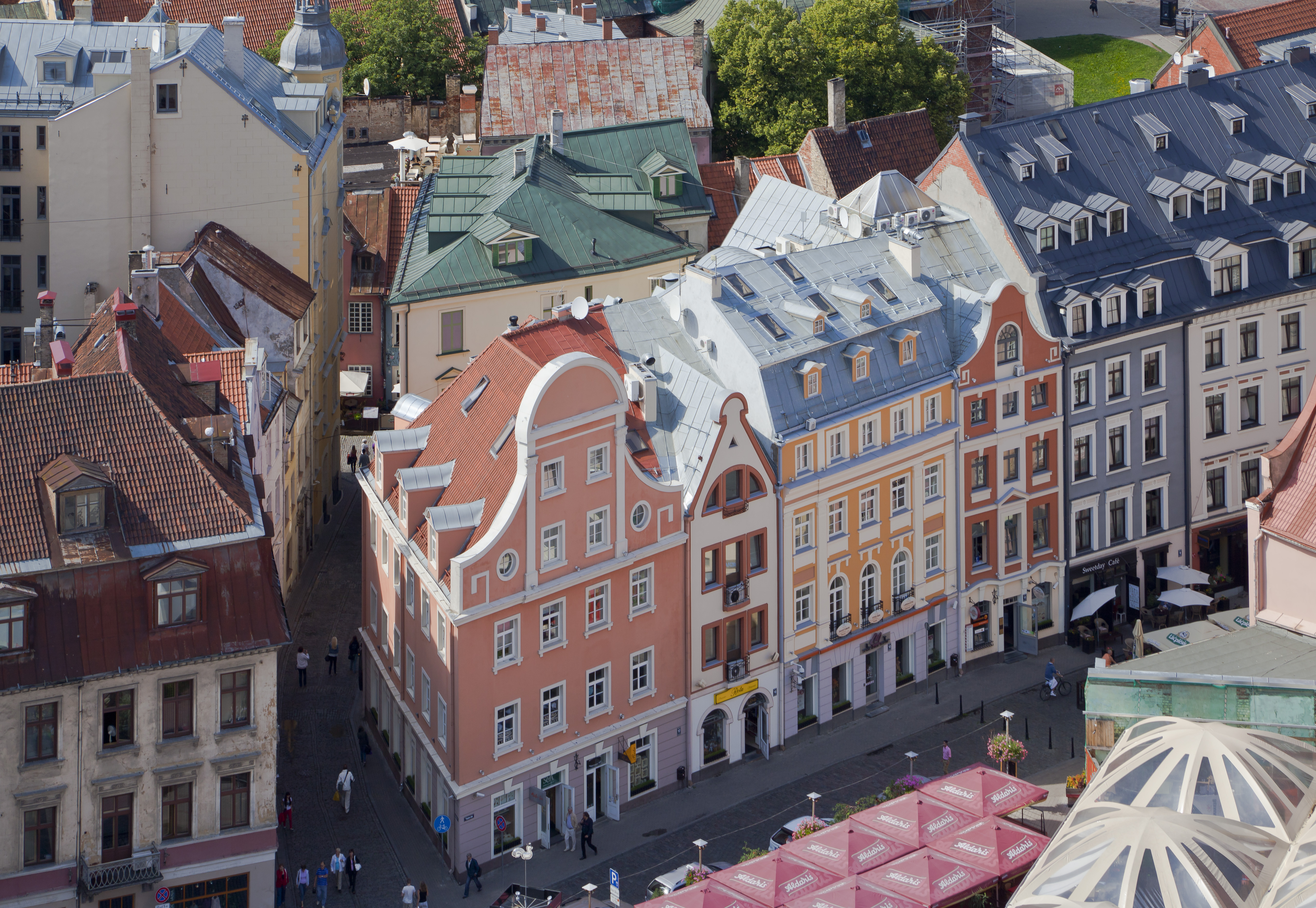 Buildings in the Market Square, Riga, Latvia